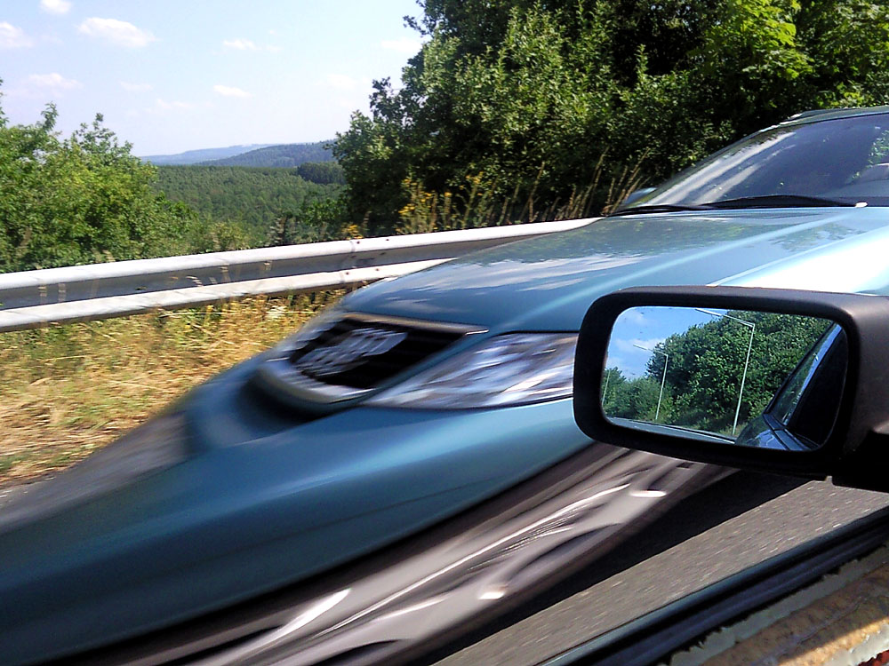 Distortion of a quickly moving subject due to the Rolling Shutter effect of a CMOS photo sensor: In the time that the sensor needs to expose its lines to the light from top to bottom, the subject continues to move further and so appears skewed in the picture. Please note the undistorted outside rear view mirror.